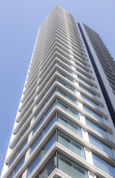 The Jervois - View of the facade